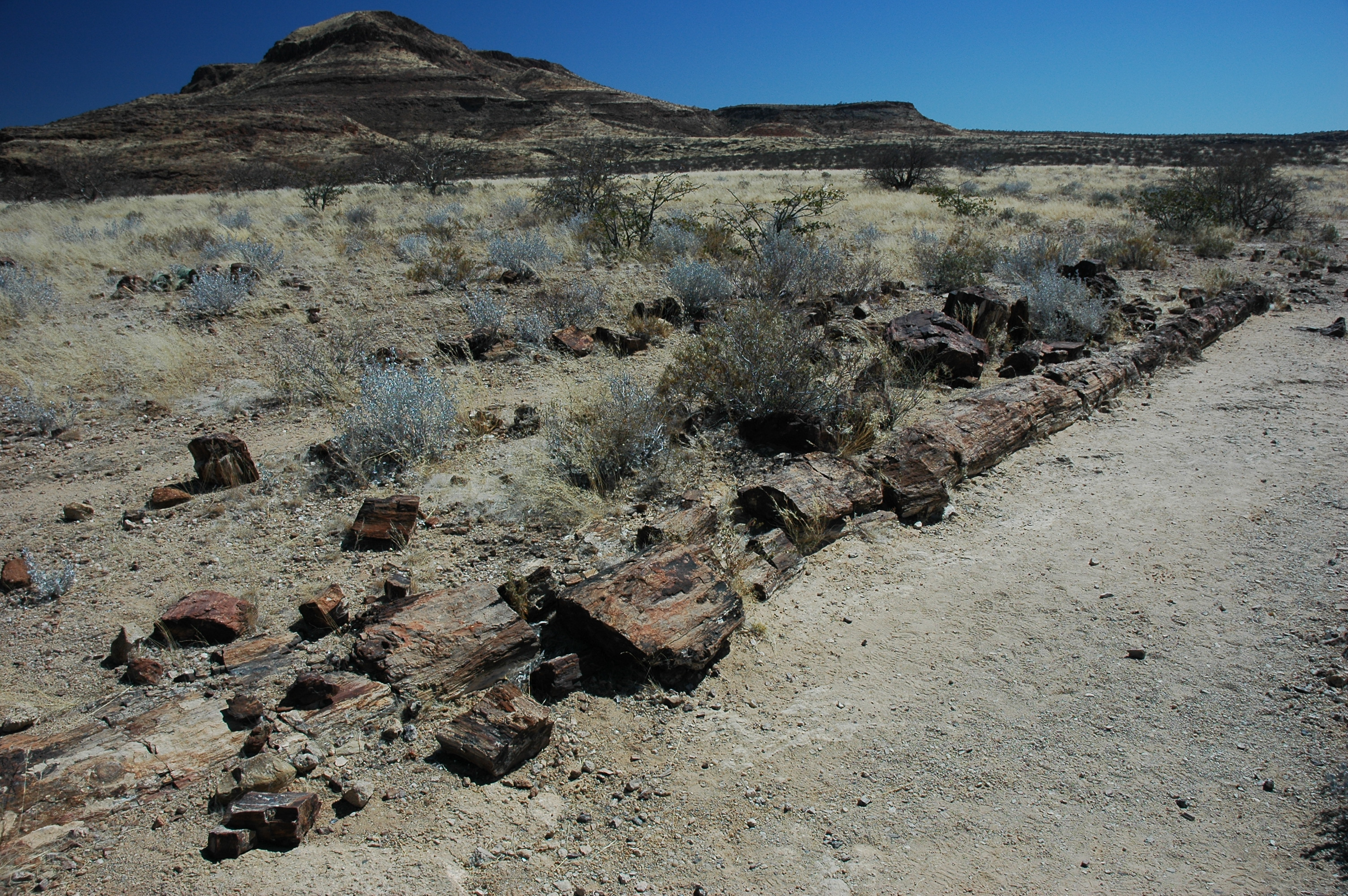 Namibie Petrified Forest Photographie prise par GIRAUD Patrick